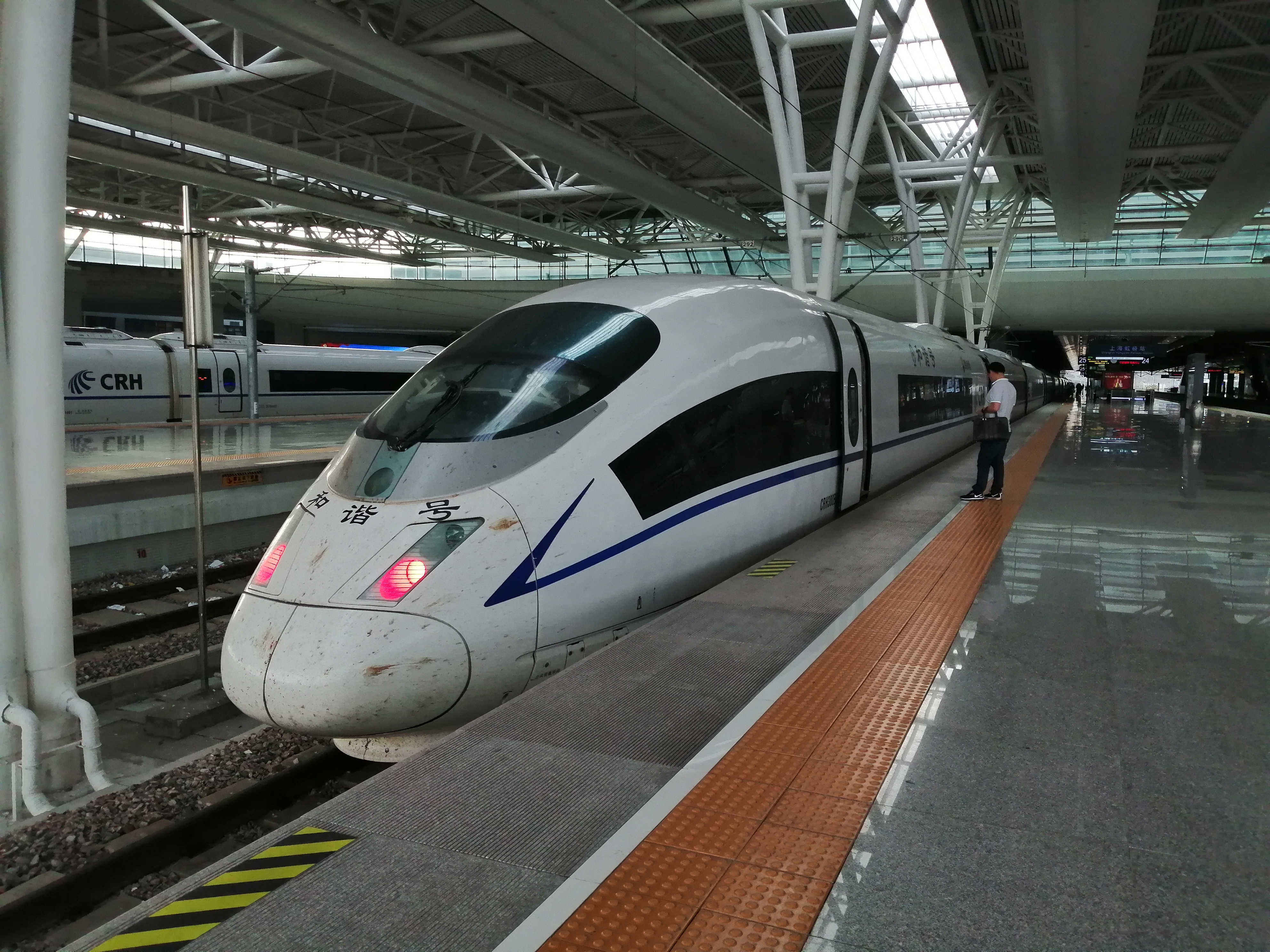 CRH380BL-3523, served as G7118, is ready to depart at Shanghai Hongqiao Railway Station. Before July 10, 2019, G7118 is served by CR400BF. 中文（中国大陆）: CRH380BL-3523担当的G7118次列车于上海虹桥站准备发车。2019年7月10日前，G7118次列车由CR400BF担当。